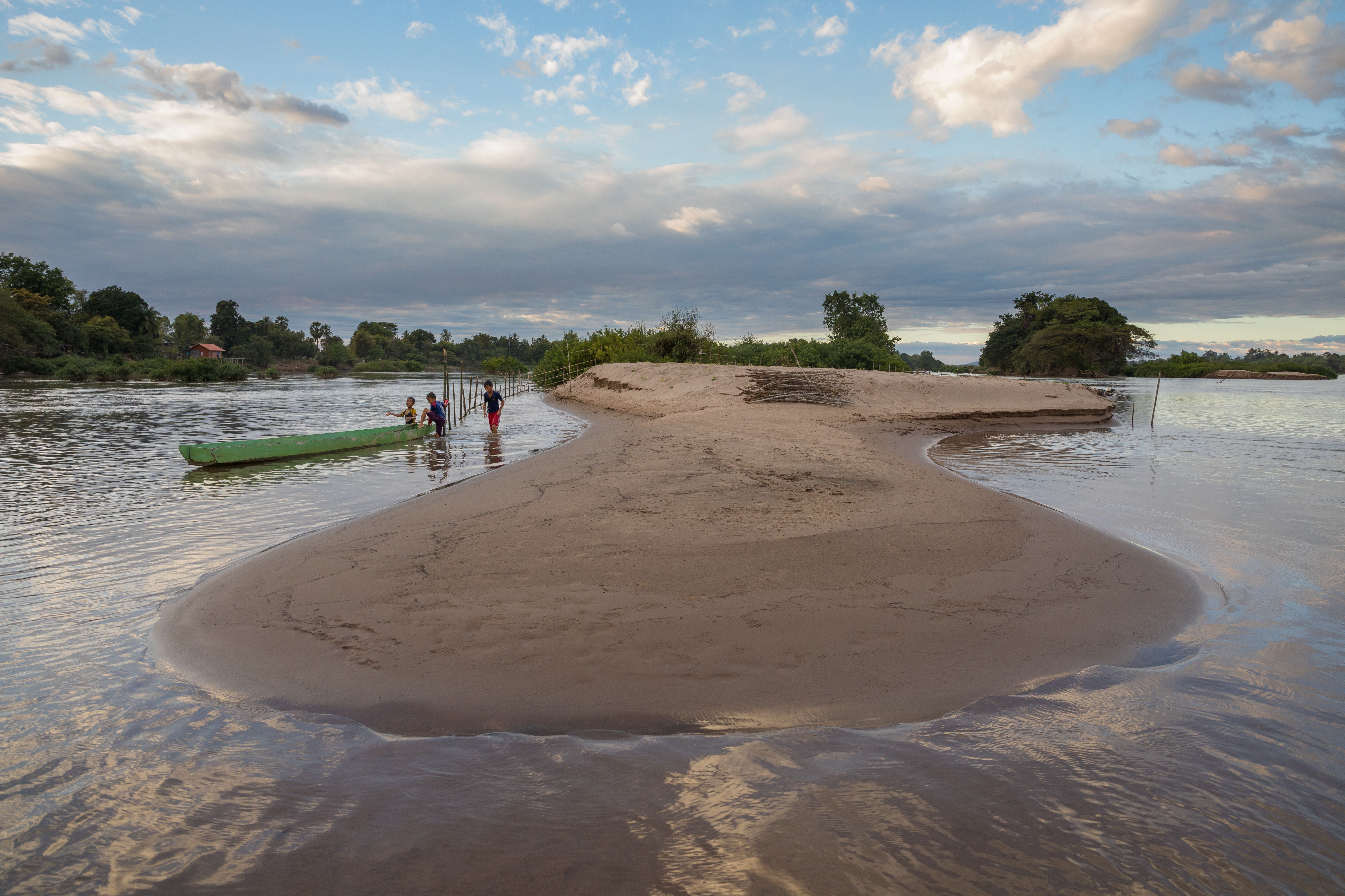 Mekong beach near the island of Don Loppadi, in Si Phan Don (4000 islands), Laos, at sunset, with 3 children returning to their boat